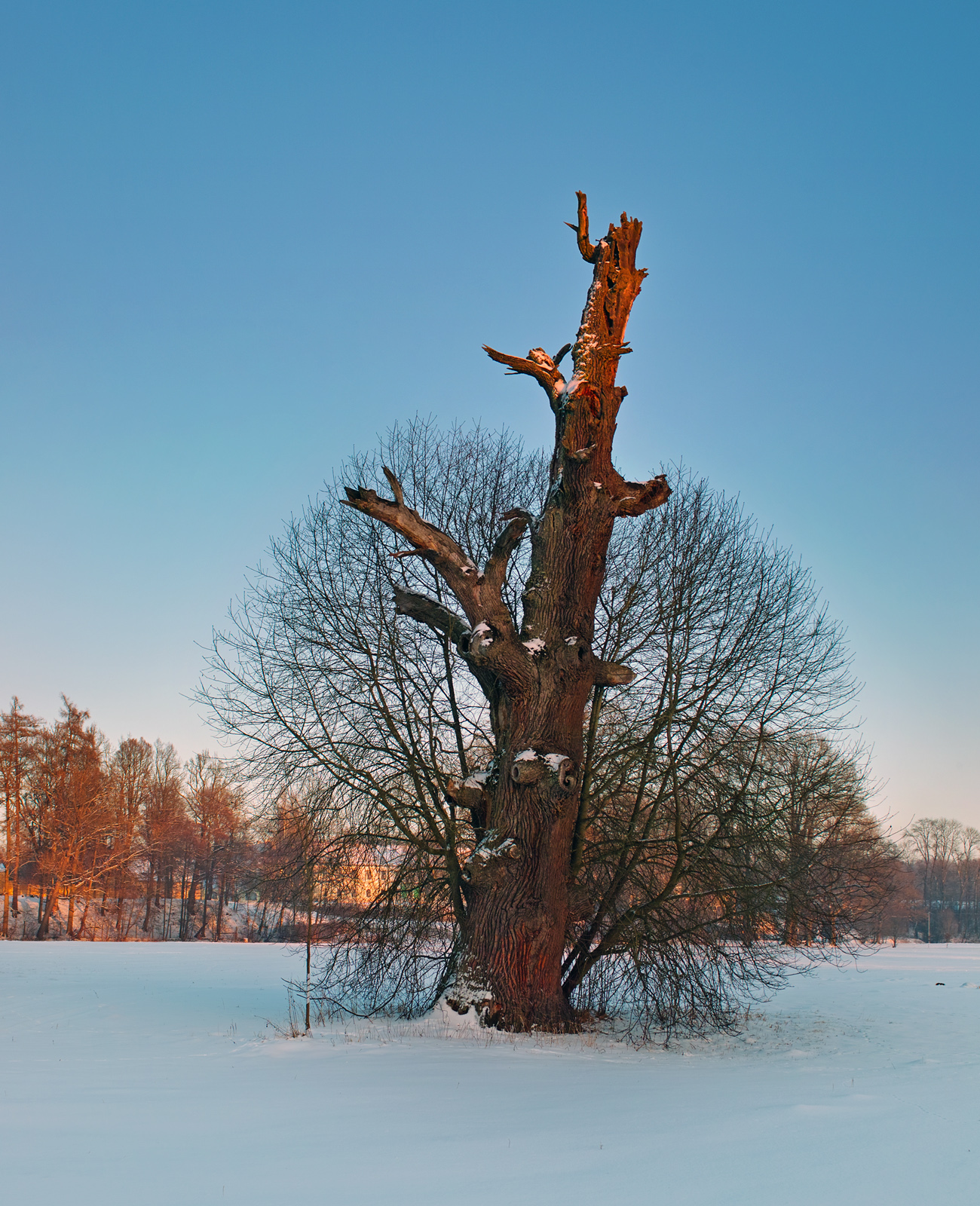 Torso of old oak tree near castle Jemcina, Czech republic